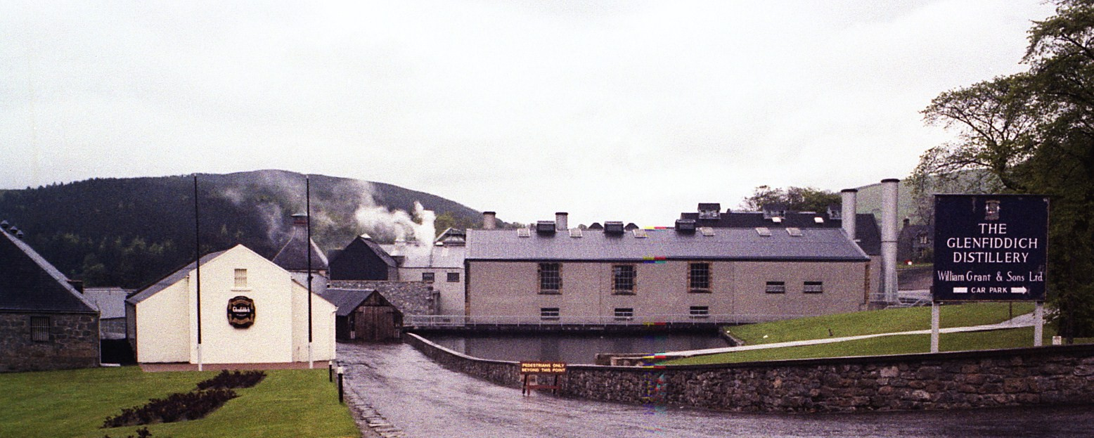 Entrance to the Glenffidich Distillery, Dufftown, Speyside, Scotland in 1979